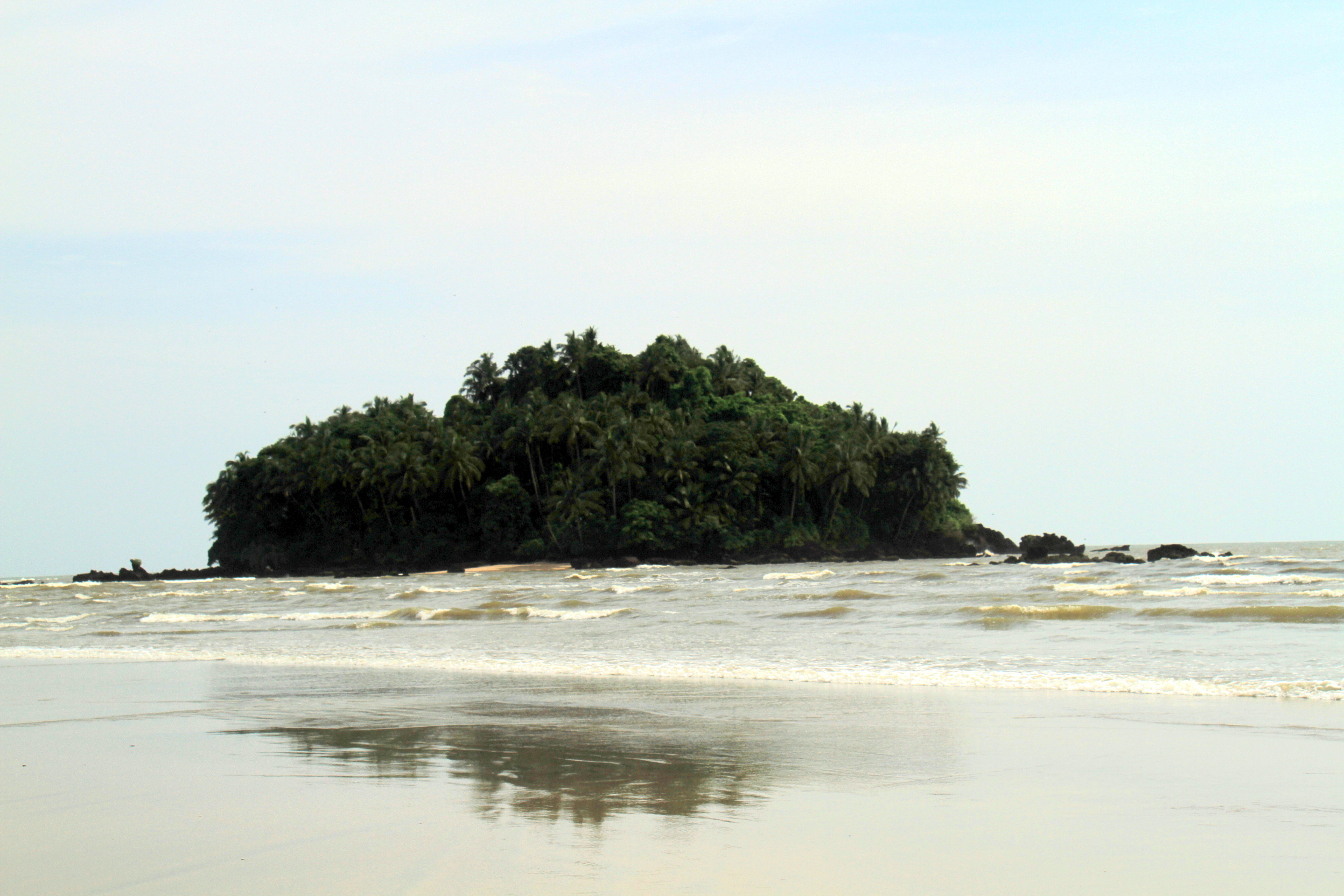 Dharmadam Island